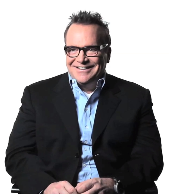 Actor Tom Arnold